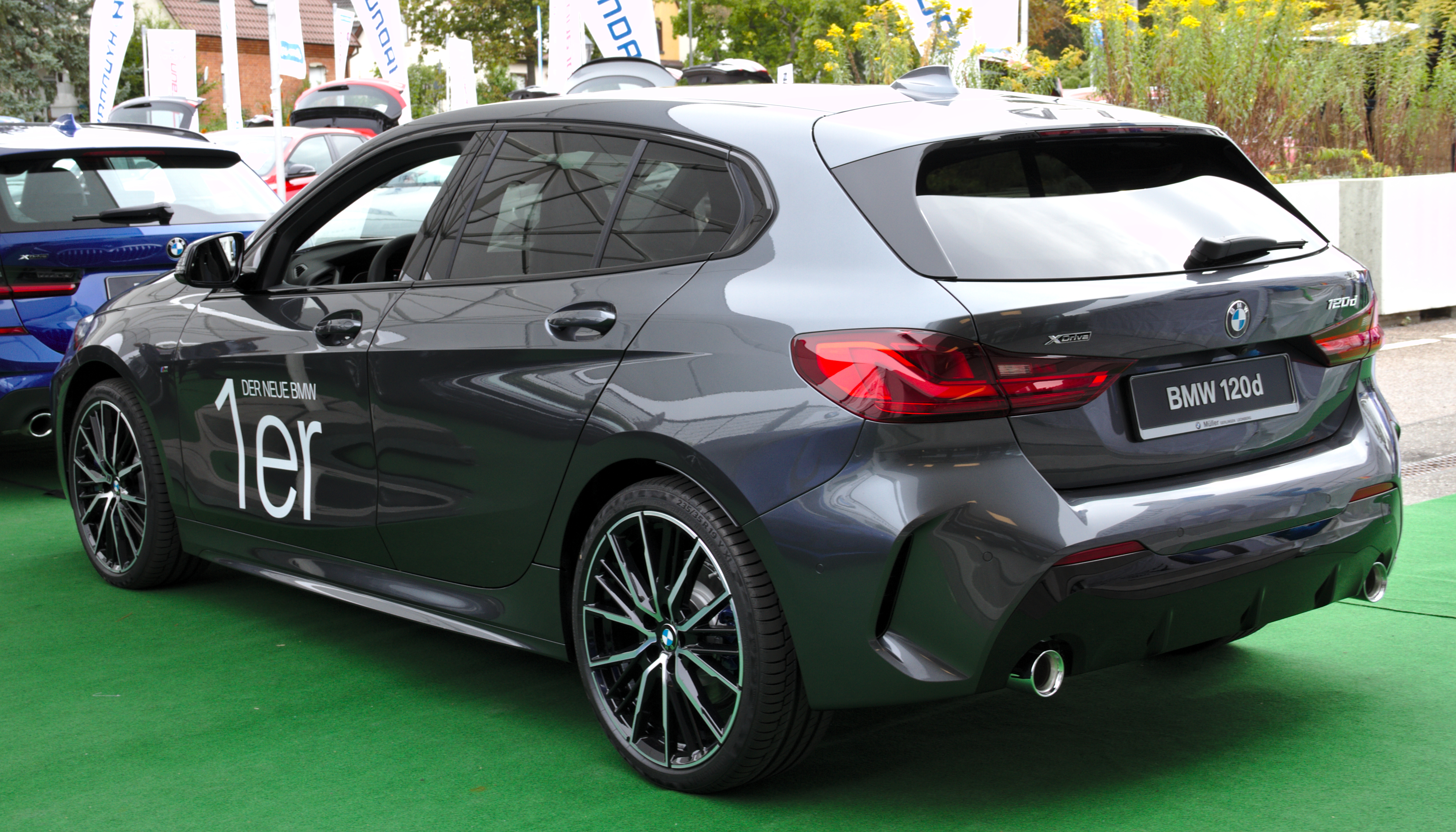 BMW_F40 at Leonberger Autoschau 2019